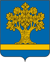 Dubovka coat of arms (Volgograd region, Russia)